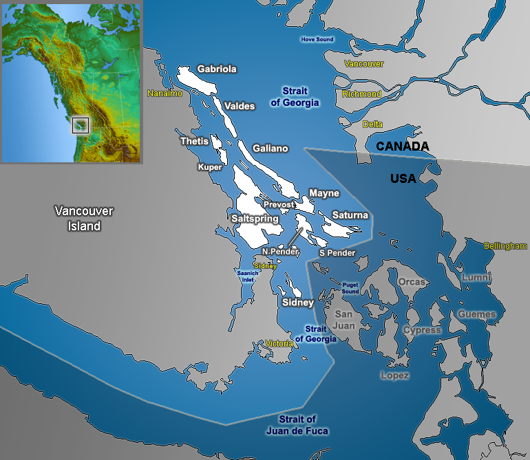 Map of the Southern Gulf Islands (British Columbia) in the Strait of Georgia, with Canada and the US separated